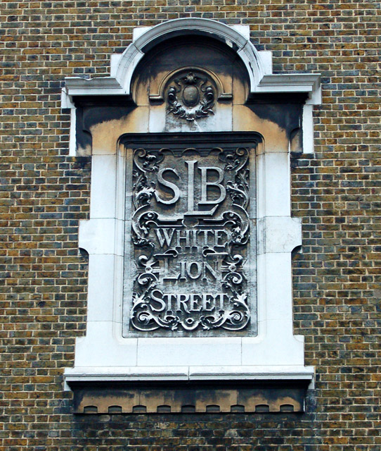 New River College, White Lion Street, Islington (4) This plaque is on the wall of New River College (see [1] ). The letters 'LSB' stand for London School Board, the education authority which erected the building as White Lion Street School.